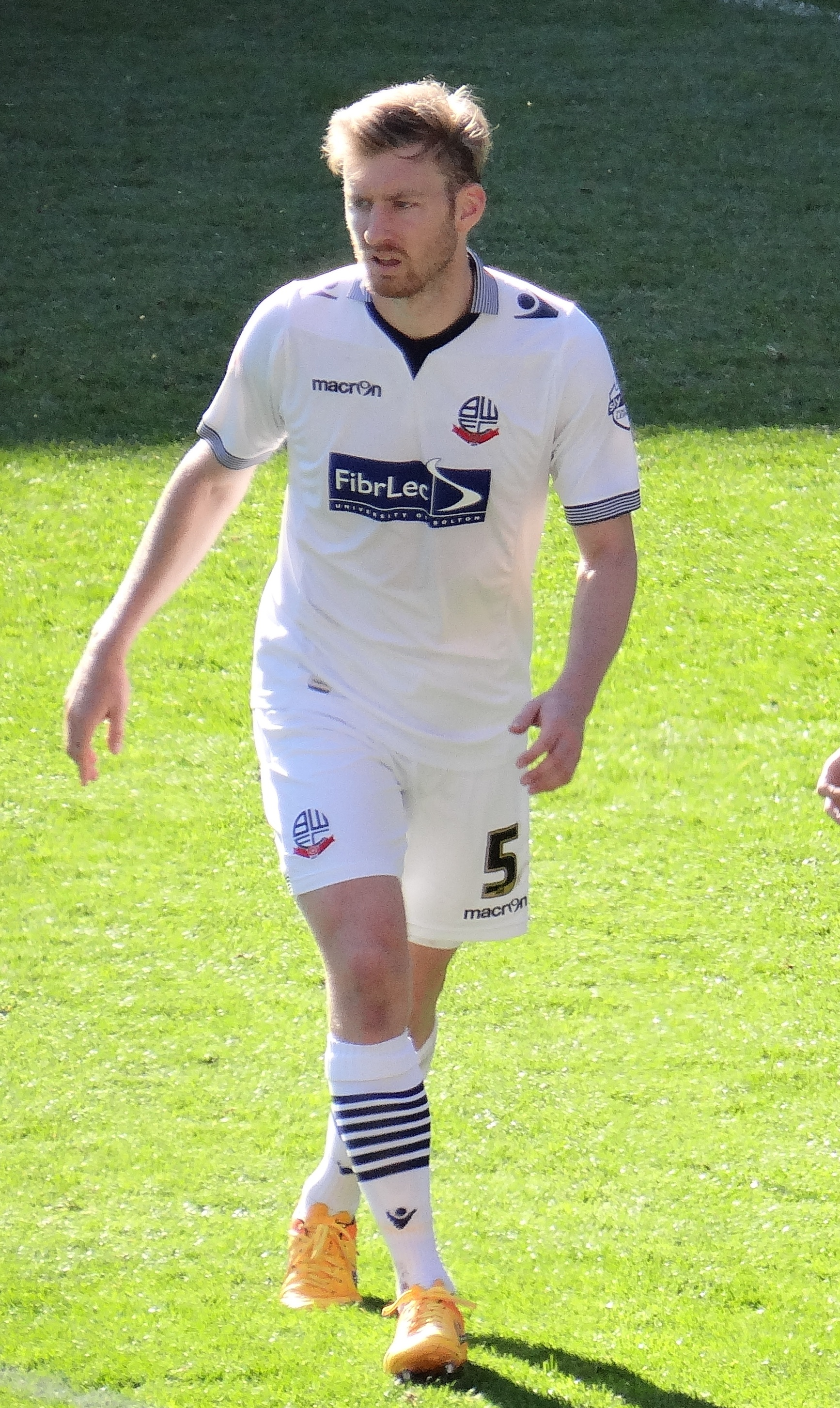 Footballer Tim Ream in 2015.